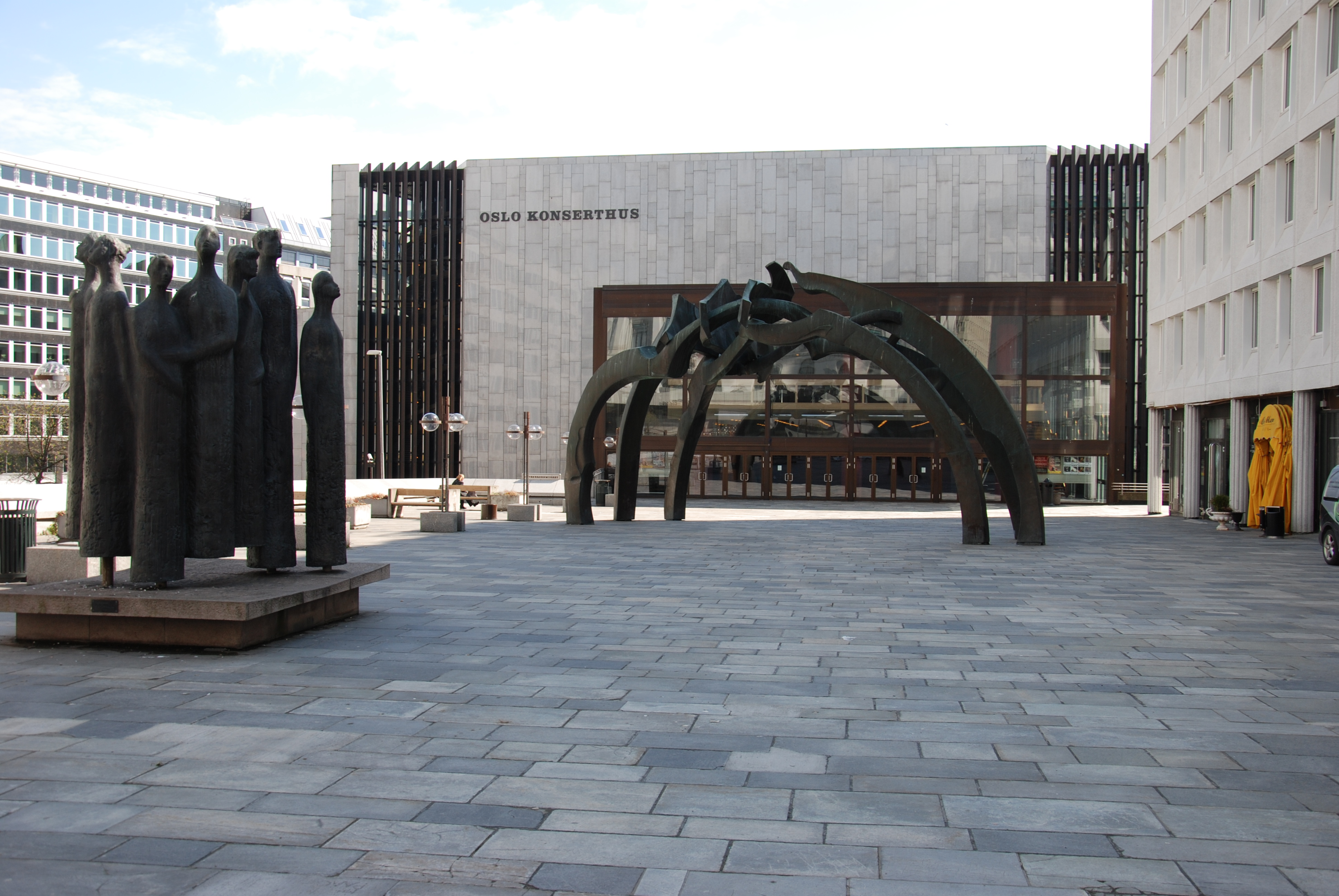 Oslo Konserthus. Till vänster Turid Engs Heptakord från 1984, mitt fram Harald Oredams Jordmusikk från 1985